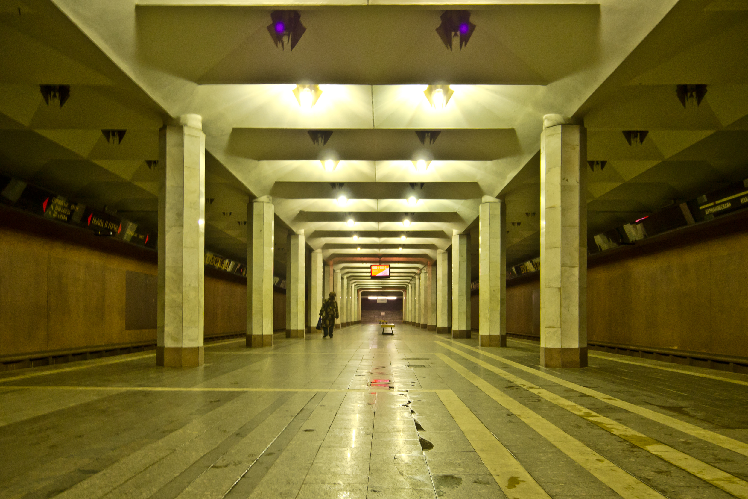 Burnakovskaya station of Nizhny Novgorod Subway